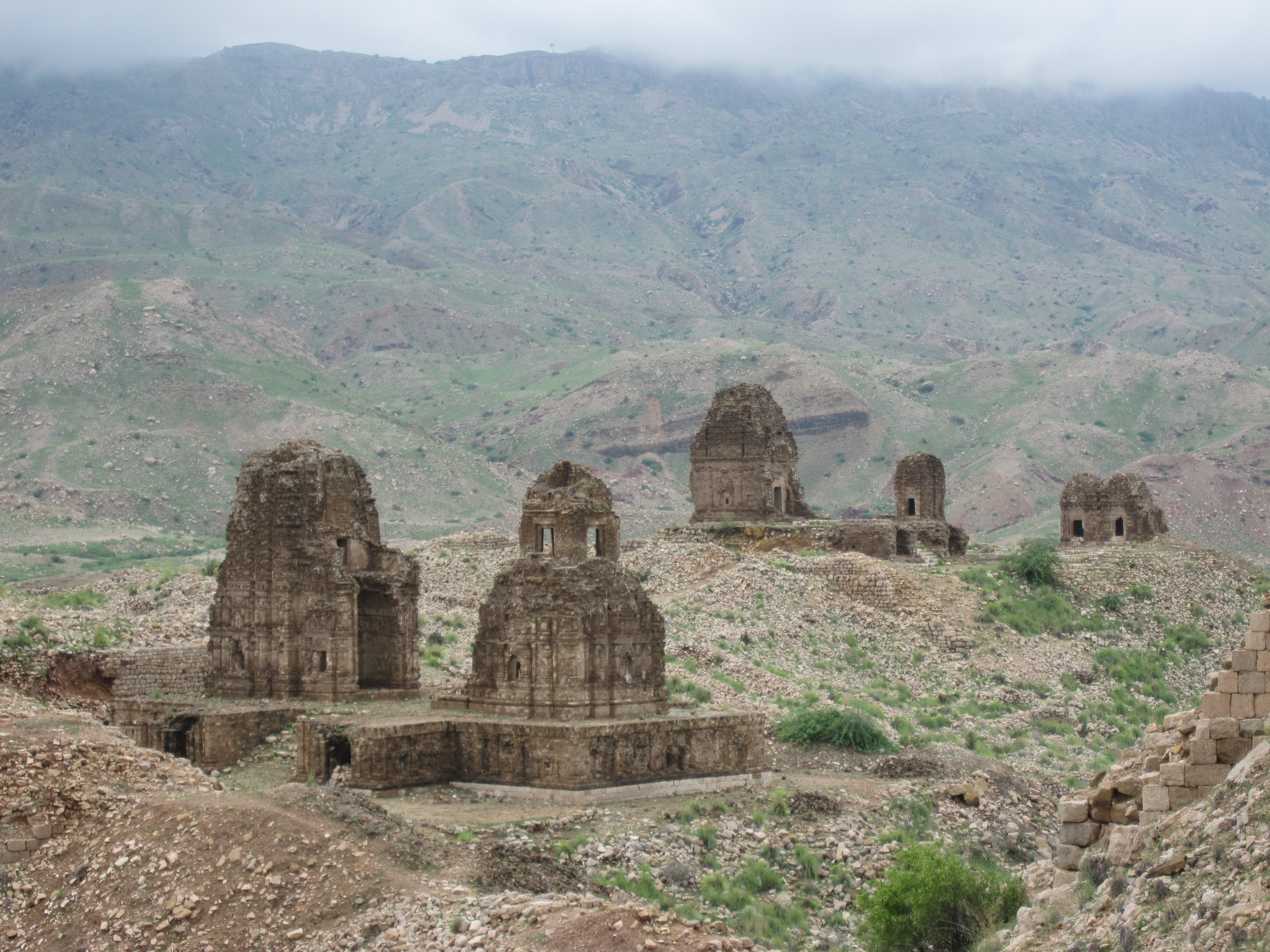 Bilot Fort Temple - Panorama 2